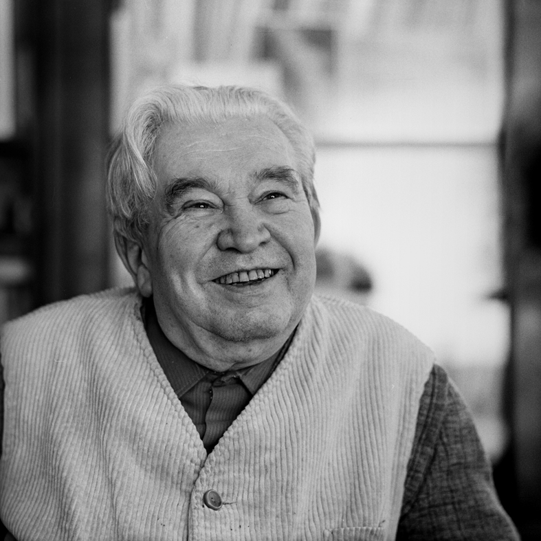 Jaroslav Seifert český básník